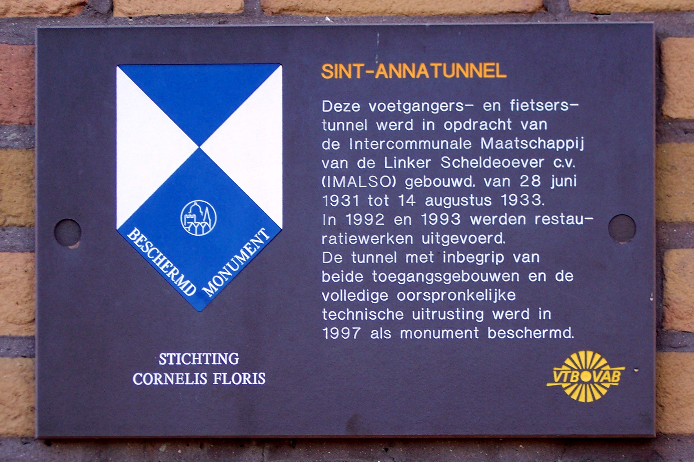 Saint Anna tunnel, Antwerp, Belgium. On the outside wall of the tunnel building on the left bank of the Scheldt sits this information shield.